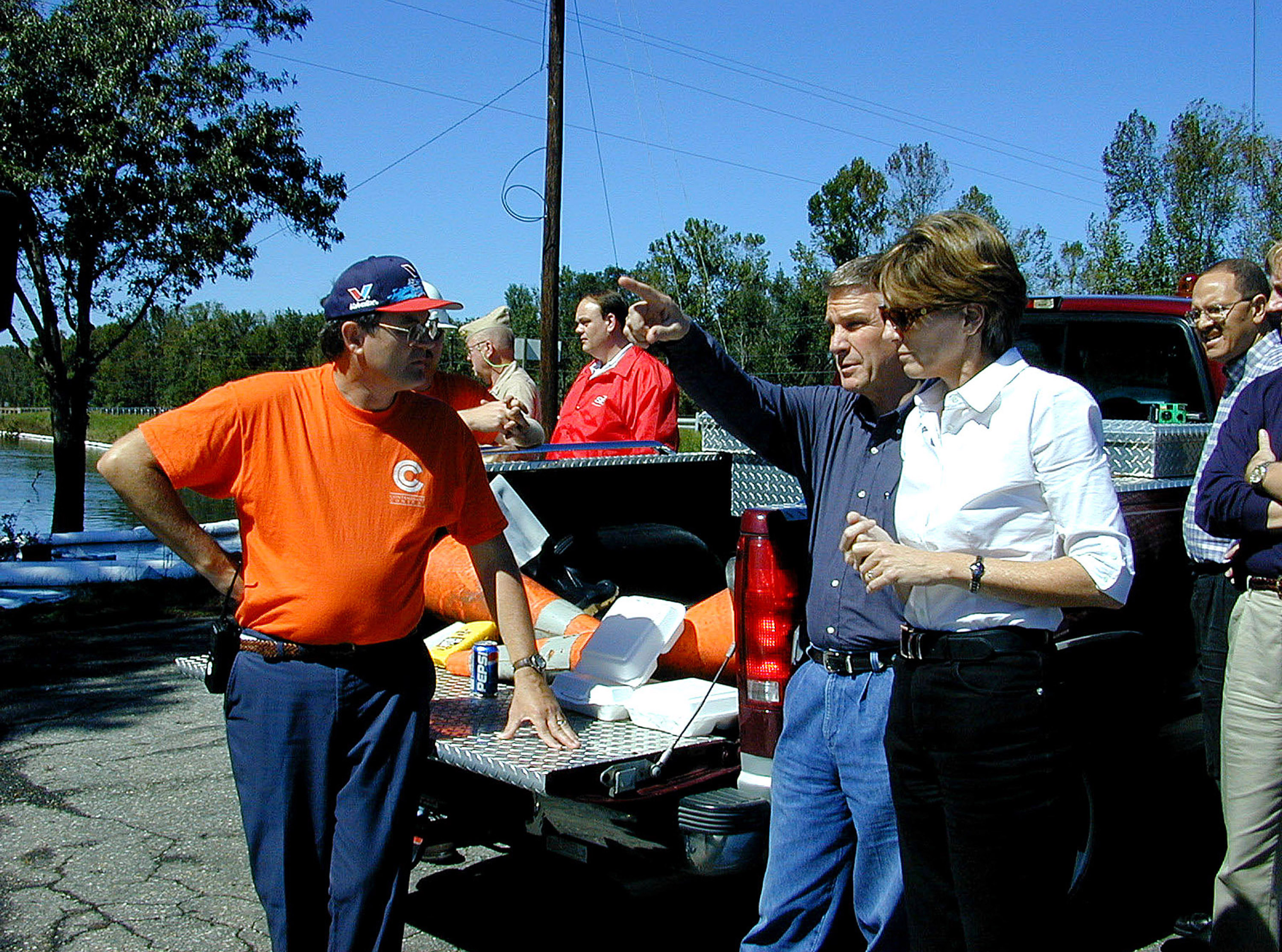 Kinston, NC, 9/30/1999 -- FEMA Director James Lee Witt and Carol Browner, Administrator of the Environmental Protection Agency, speak with a Hazmat Team working in Kinston, North Carolina. The team is working to cleanup fuel spills in the area. FEMA Director Witt and other federal, state and local officials toured the flood ravaged area today. Photo By DAVE SAVILLE/FEMA News Photo